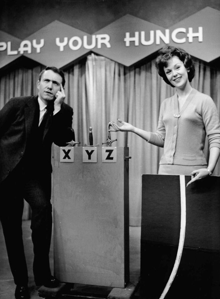 Photo of Merv Griffin and Liz Gardner from the television game show Play Your Hunch.